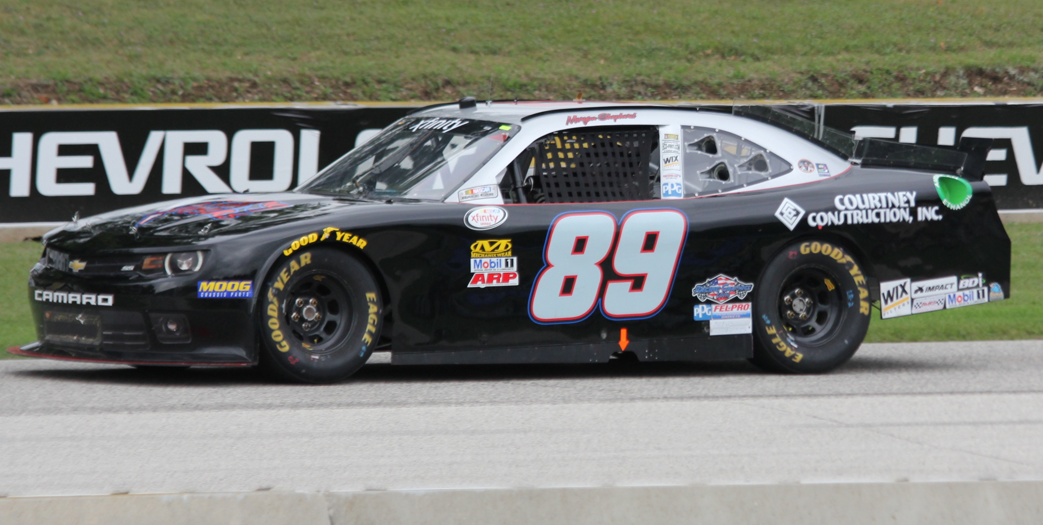 The NASCAR Xfinity Series car of Morgan Shepherd racing uphill between Turns 5 and 6 at Road America.